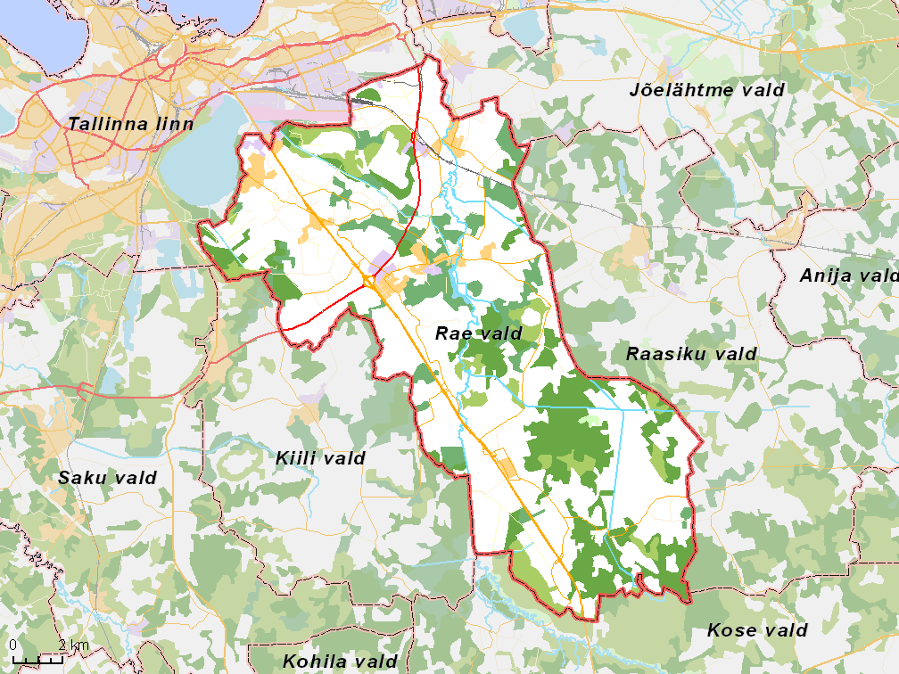 Map of municipality in Estonia